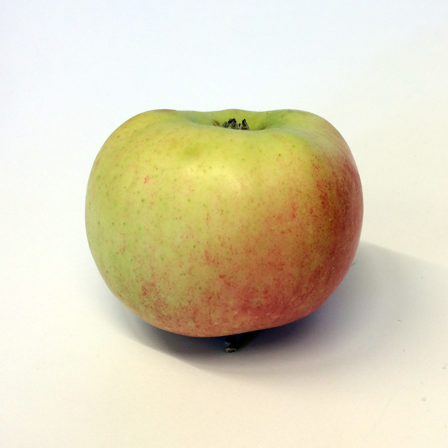 Apple of the cultivar Ökna lökäpple, photographed in conjunction with the Apple Festival at Nordiska museet, Stockholm, Sweden in September 2014.